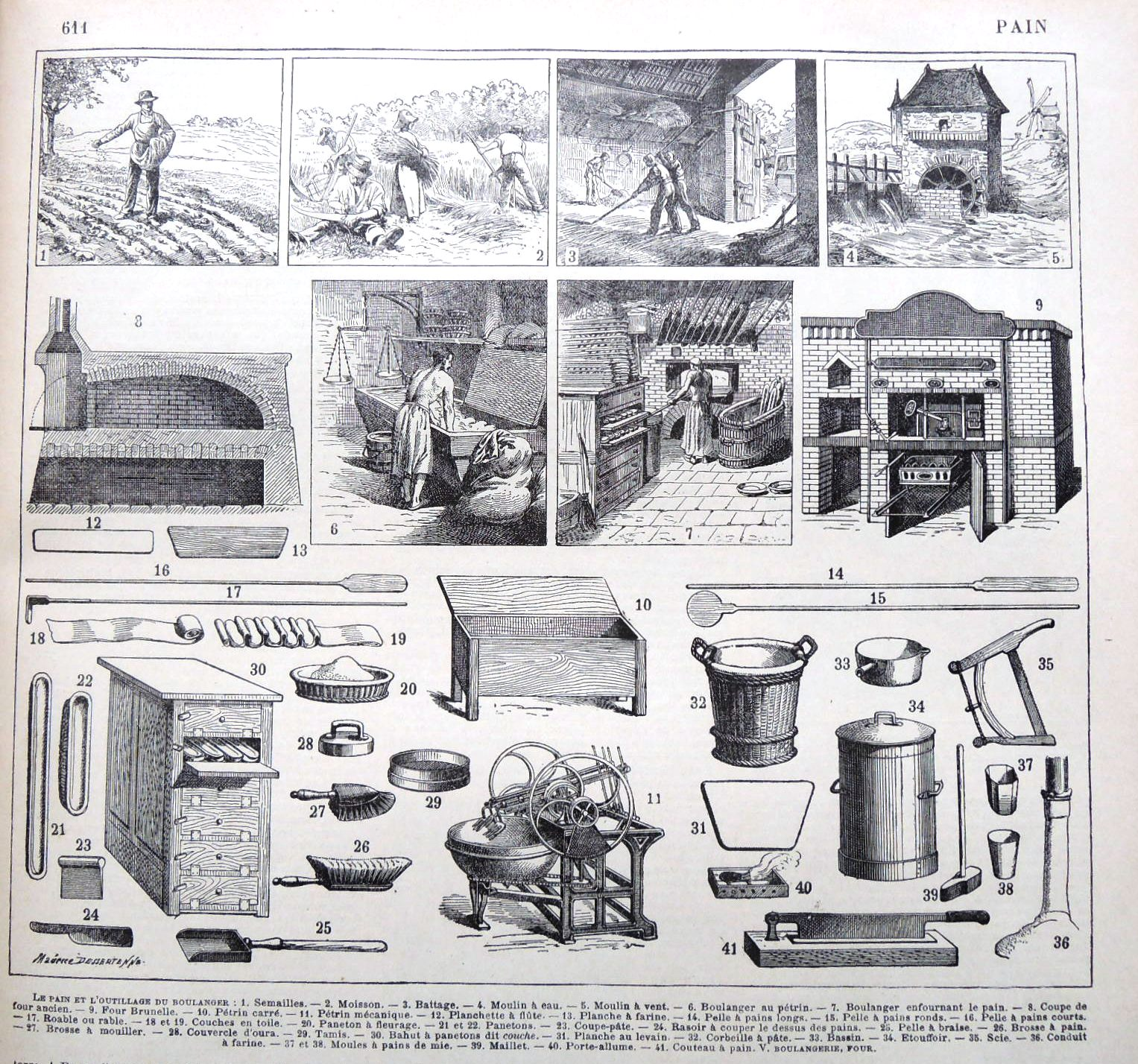 19th Century bread manufacturing